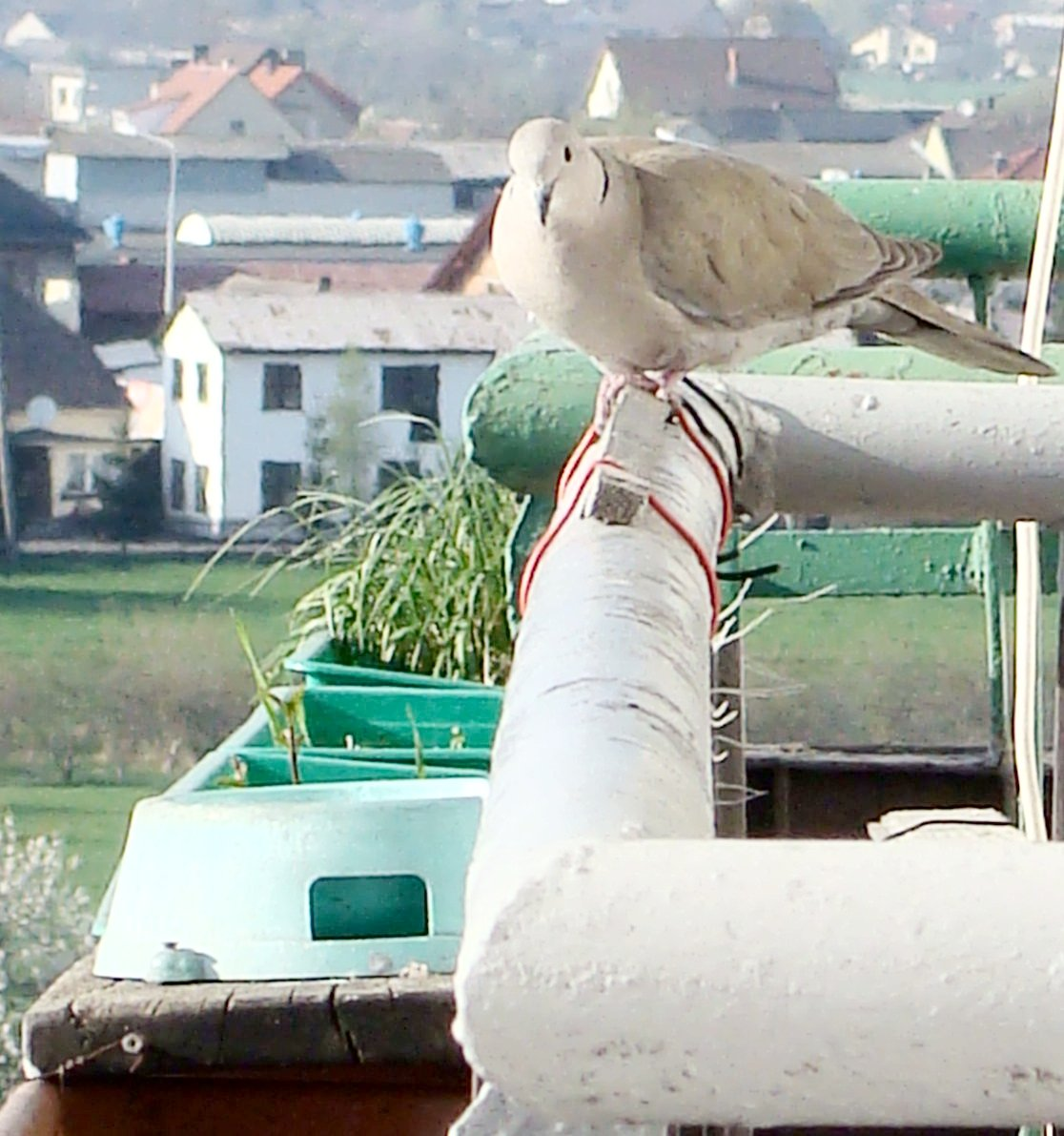 Watering trough